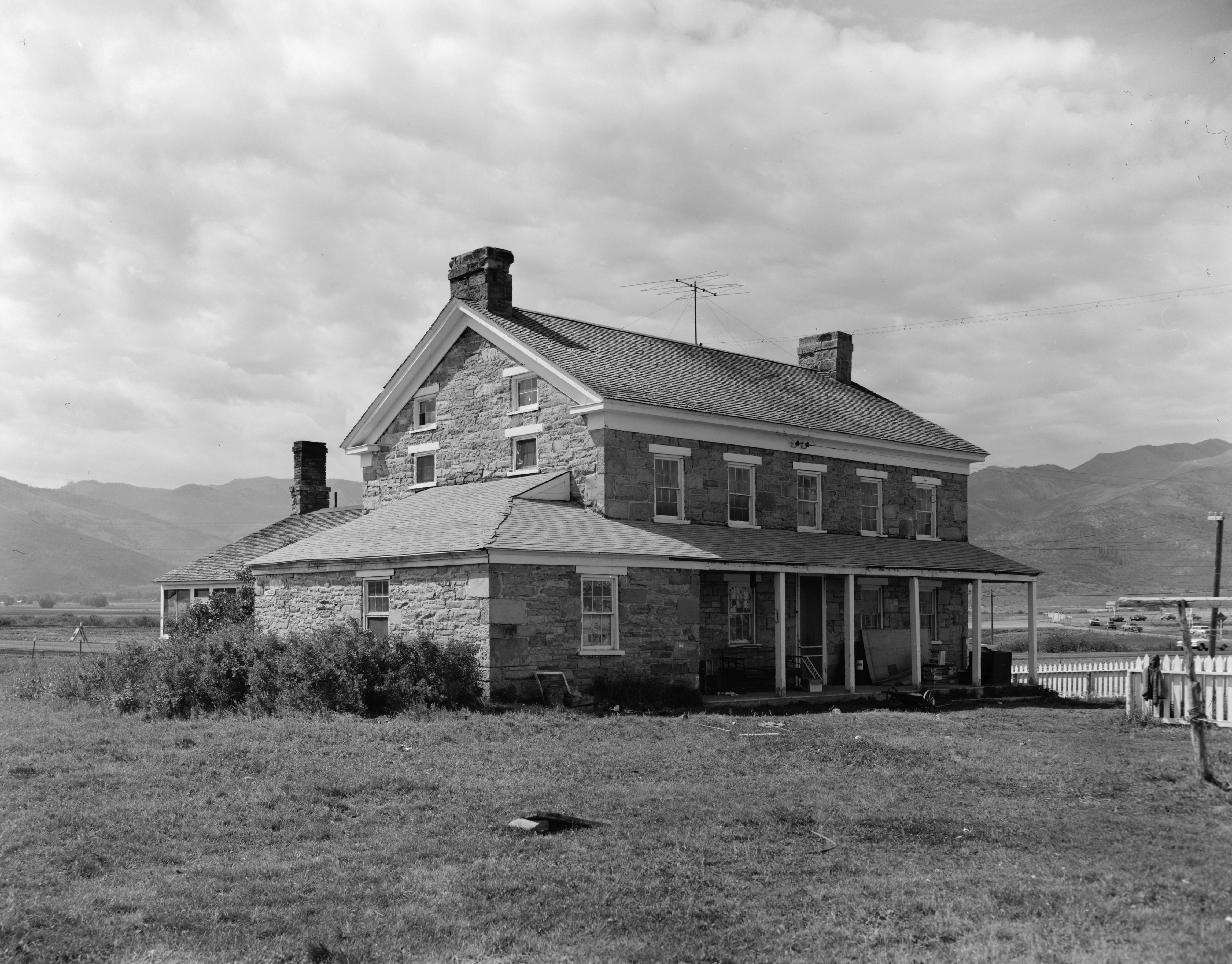 Kimball Hotel at the Kimball Stage Stop, located along U.S. Route 40 west of the Silver Creek Junction near Park City in Summit County, Utah, United States. Built in the early 1860s, the hotel and associated buildings are listed as a historic district on the National Register of Historic Places.